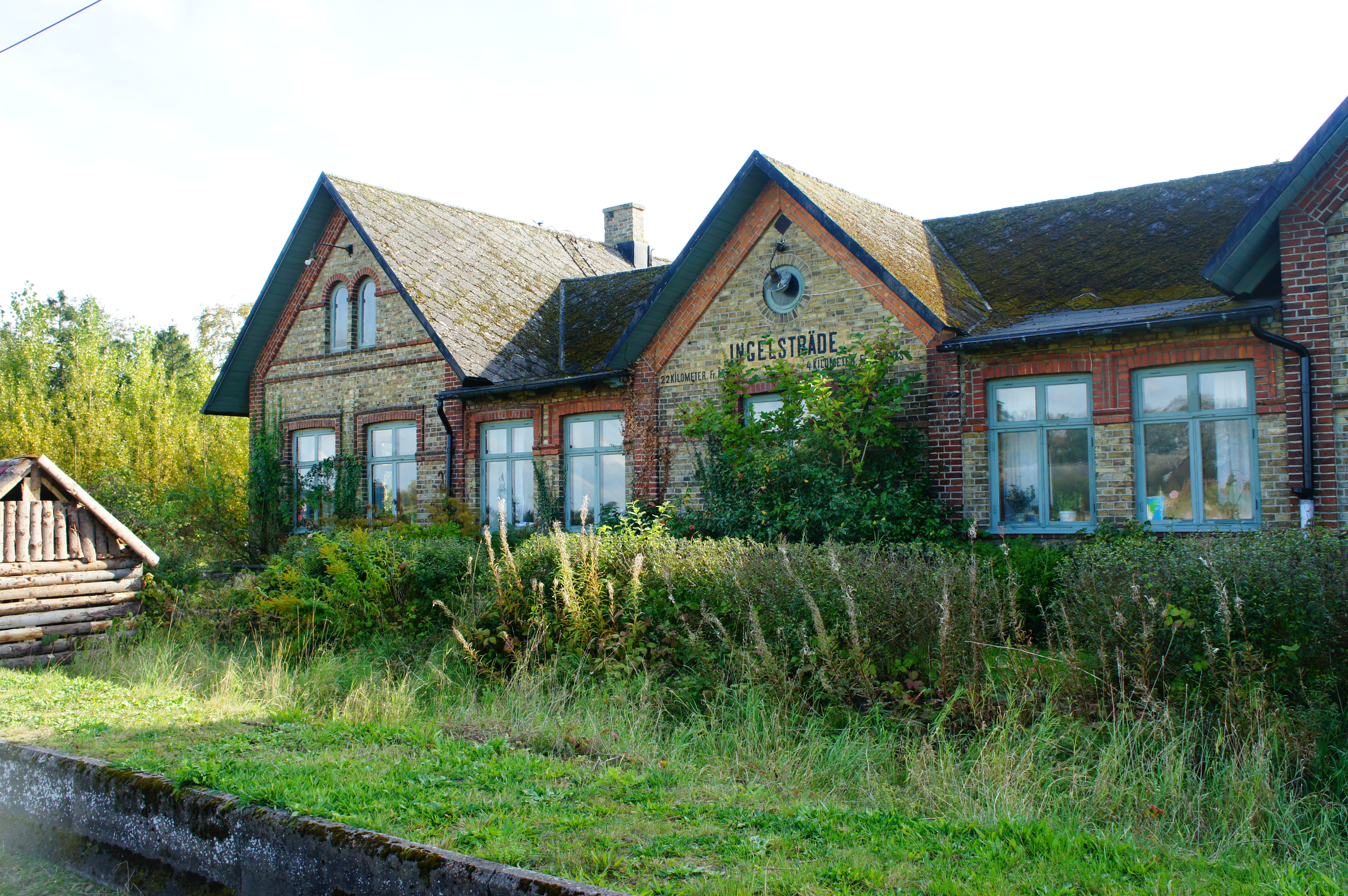 The old railway station at Ingelsträde, Sweden.